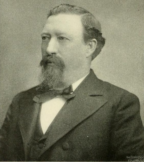 Maecenas Eason Benton (Missouri Congressman)